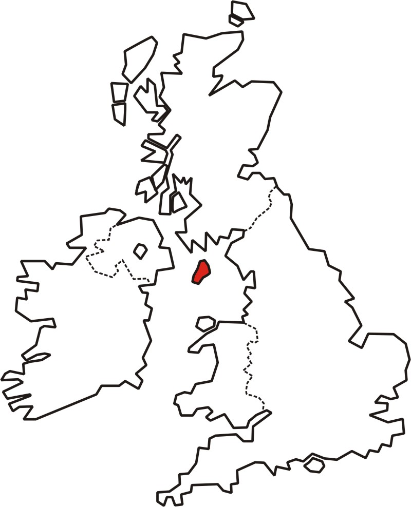 Lokalisering av Man Location of Isle of Man